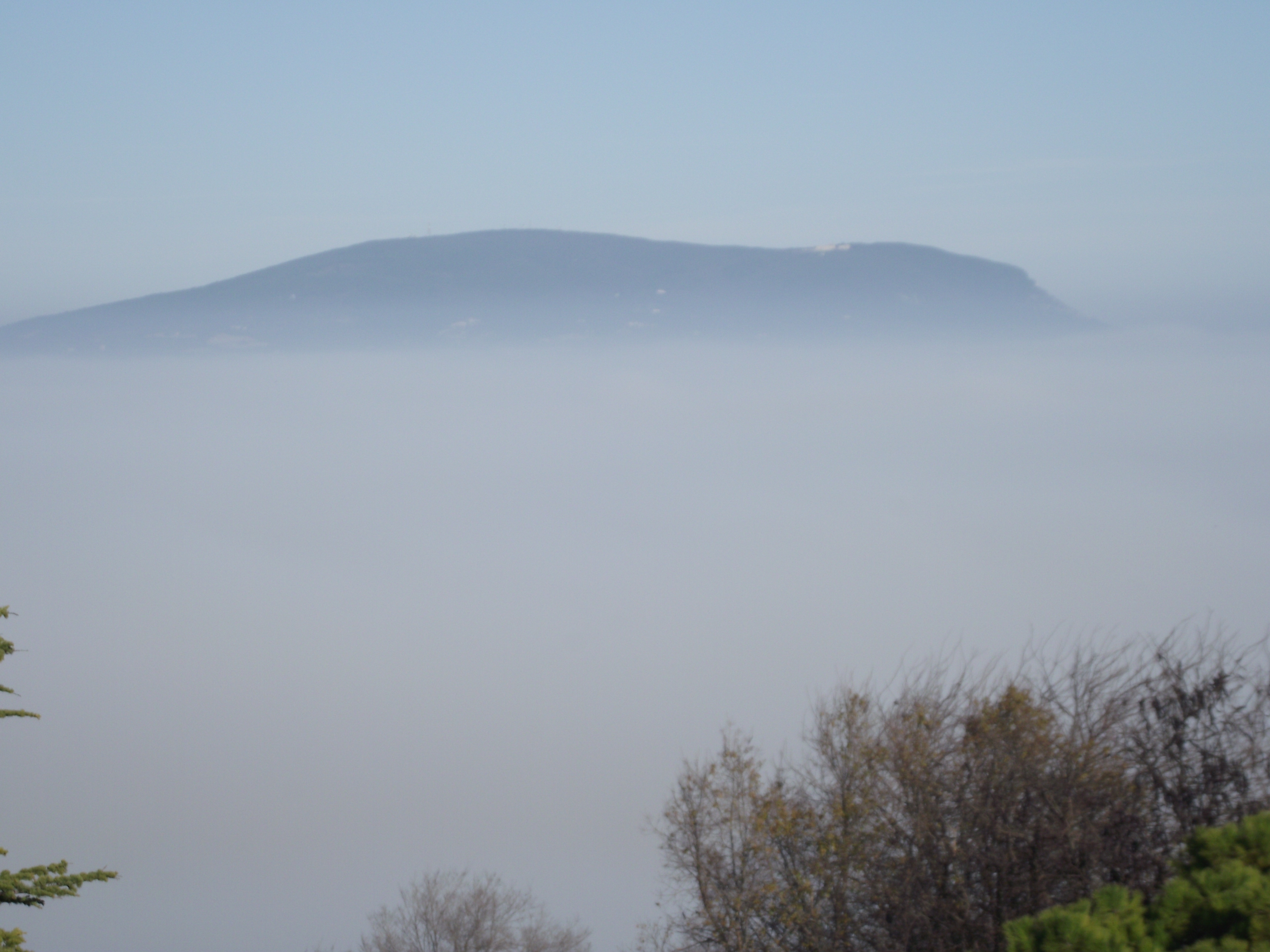 Conner Mount from Loreto with fog on the valley